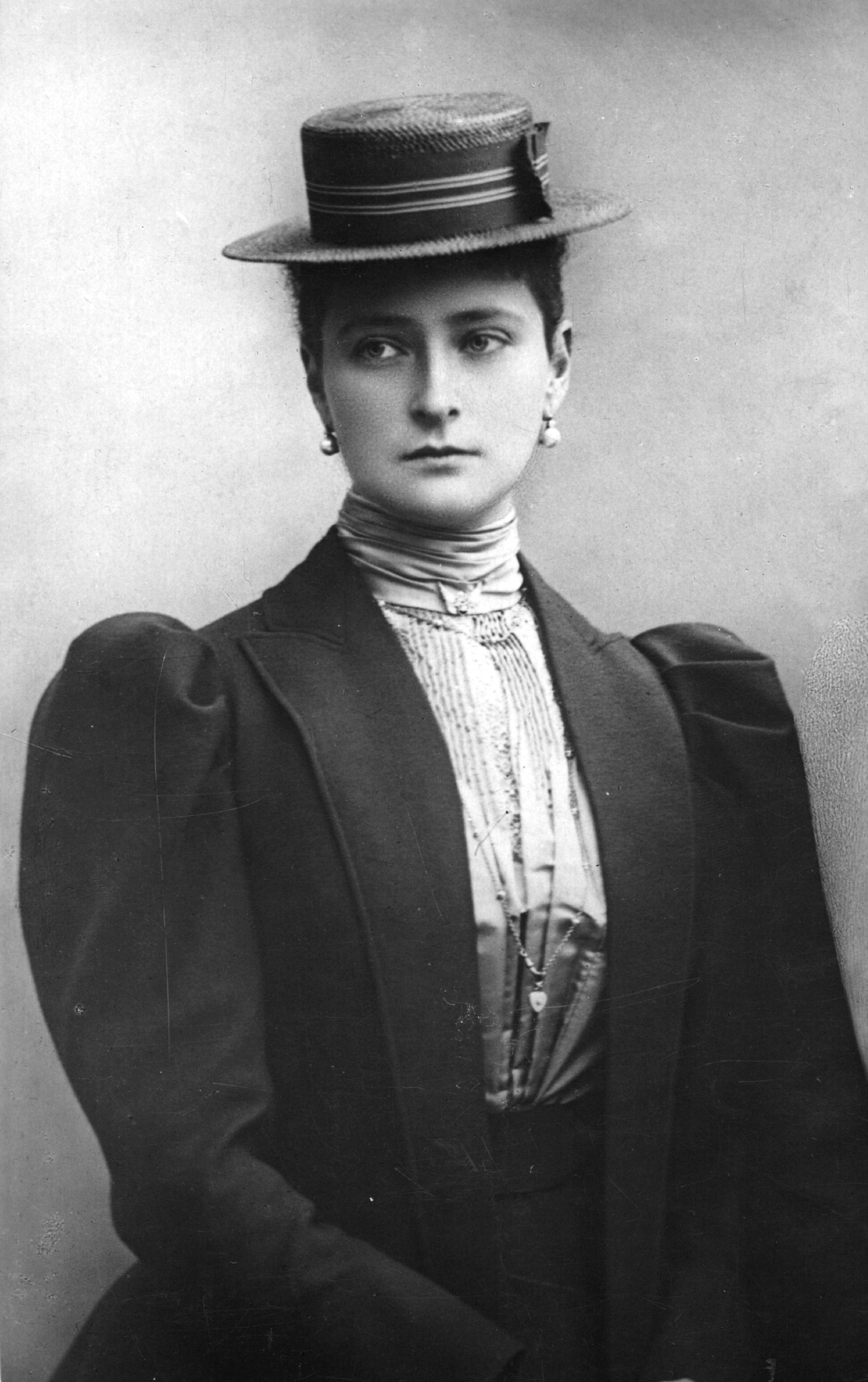 Empress Alexandra Fyodorovna, wife of Emperor Nicholas II of Russia